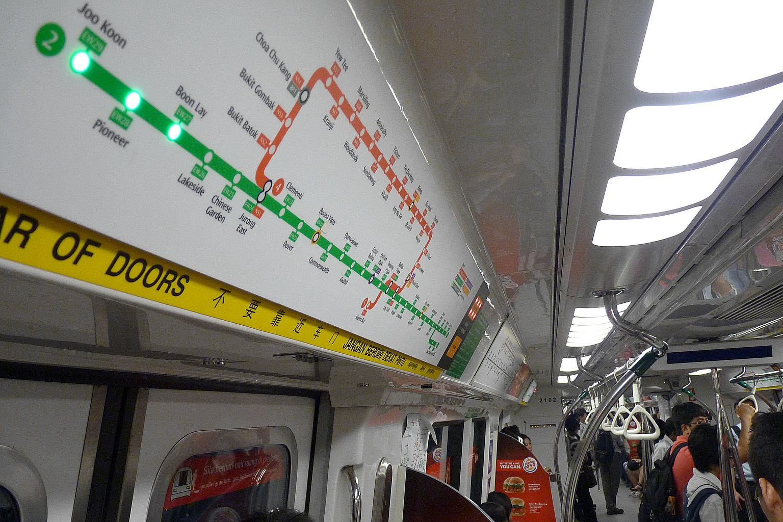 Singapore MRT route information panel showing current location of the train and upcoming stops.